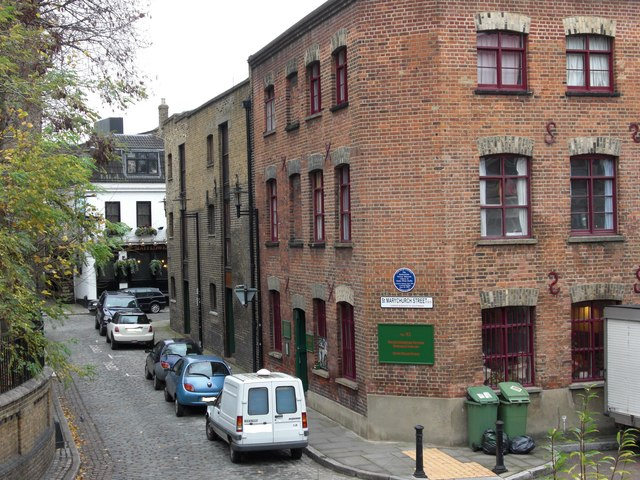 Ship & Eight Bells pub (site of) St Marychurch Street, Rotherhithe, London, SE16 This was first recorded in 1757 and finished trading in 1819. Grices Granary or Wharf was built on the site that still remains today with an address of number 82. In 1976 Sands Films obtained the building. As may be seen, the 'Mayflower' pub is within spitting distance and on the left is St Marys Church. Possible point of interest re the two metal bollards :- in the 1960's / 1970's there were a great number of such bollards around the immediate vicinity, practically all were cannons from ships that had been dismantled in the area - many were stolen for either their 'historic' of 'scrap' value.